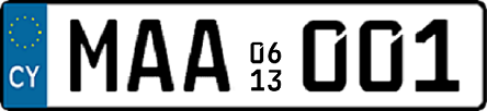 License plate from the Republic of Cyprus since June 2013